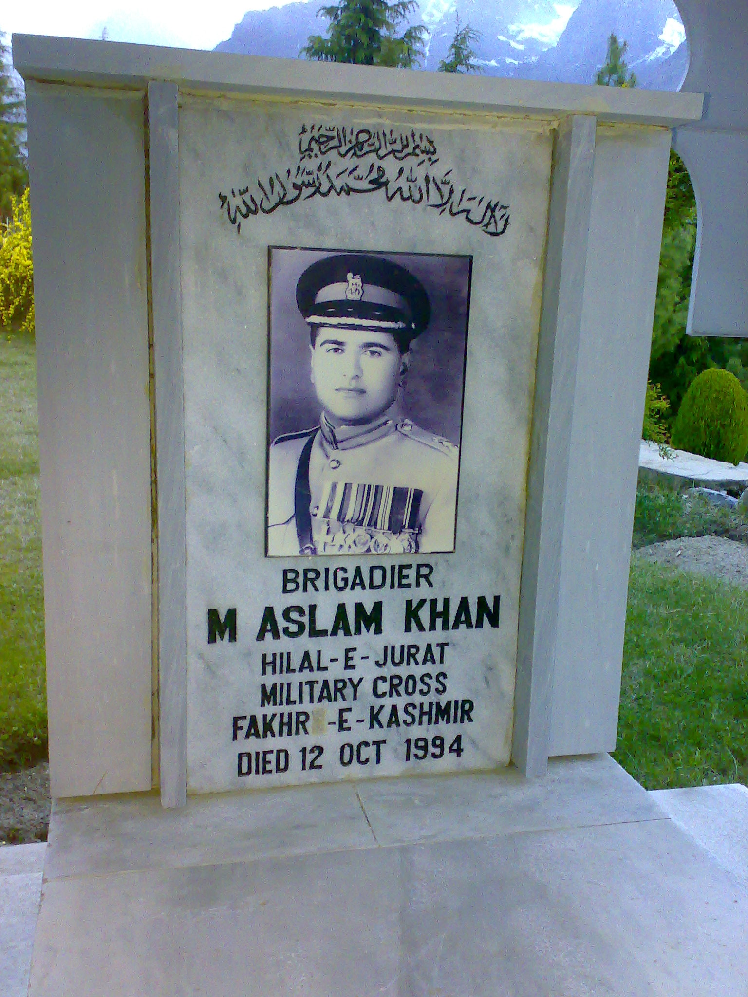 The Gravestone on the grave of Brigadier M Aslam Khan (the conciever and builder of Shangrila Resort) on a mound inside the resort. The military decorations inscribed on the grave speak well of the calibre of the officer. The resort in itself is a wonder in the Himalayas and speaks of Brigadier Aslam's love and passion with the project.